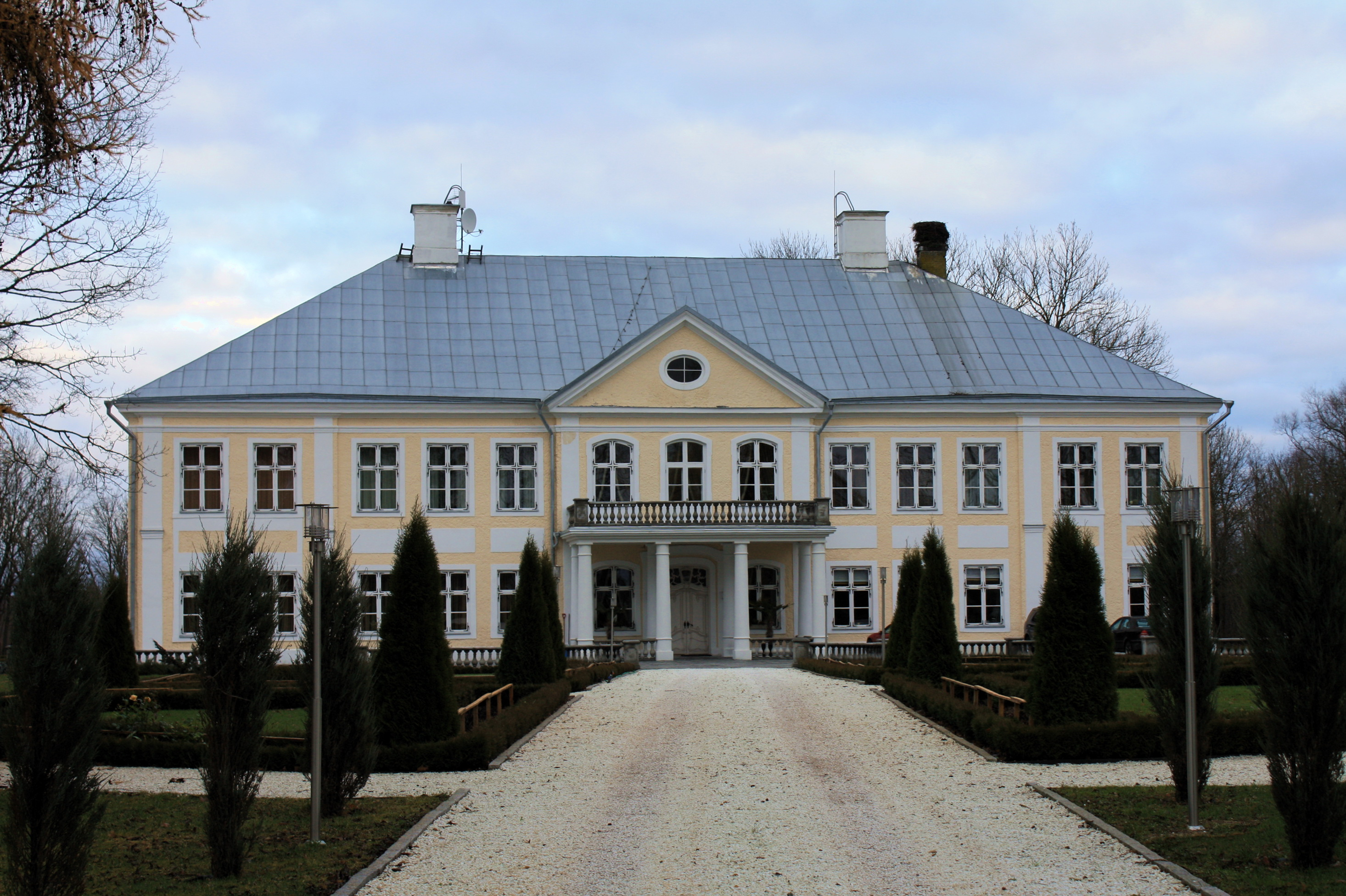 Ääsmäe manor house